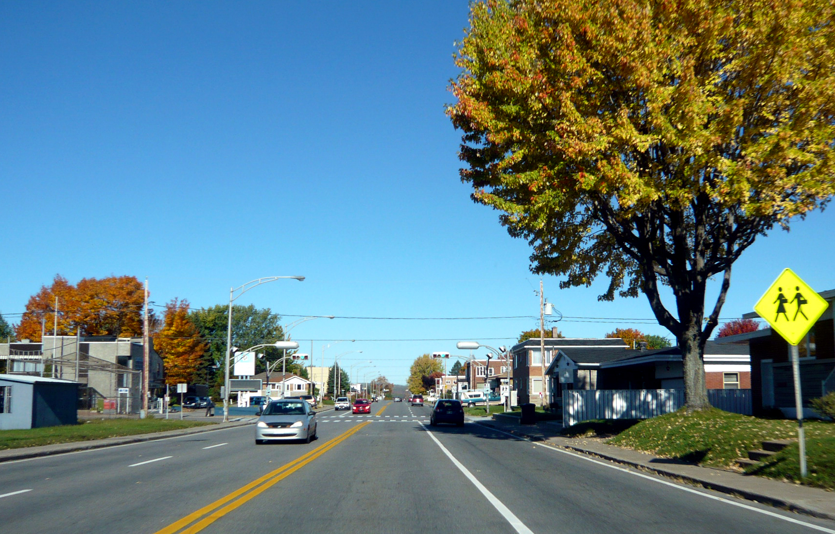 Urban section of the 157 highway. Shawinigan, Quebec, Canada